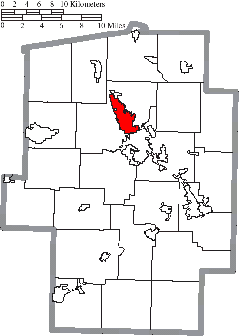 Map of the municipal and township boundaries of Tuscarawas County, Ohio, United States, as of the 2000 census, with the location of the city of Dover highlighted. Township borders are shown only in unincorporated areas in order to differentiate incorporated and unincorporated areas more clearly.